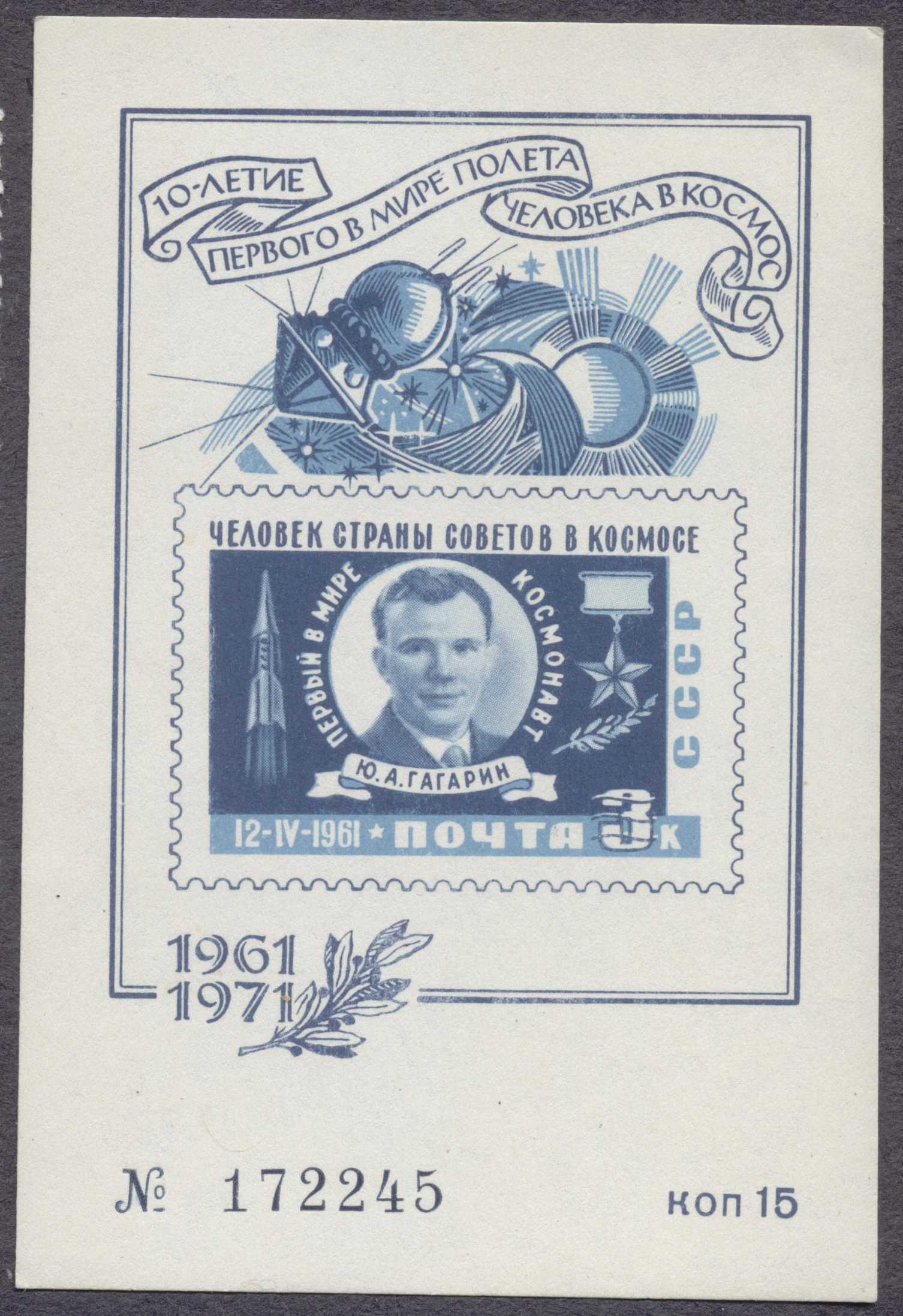 1971 Soviet Union 15 kopeks stamp. 10 years First man spaceflight